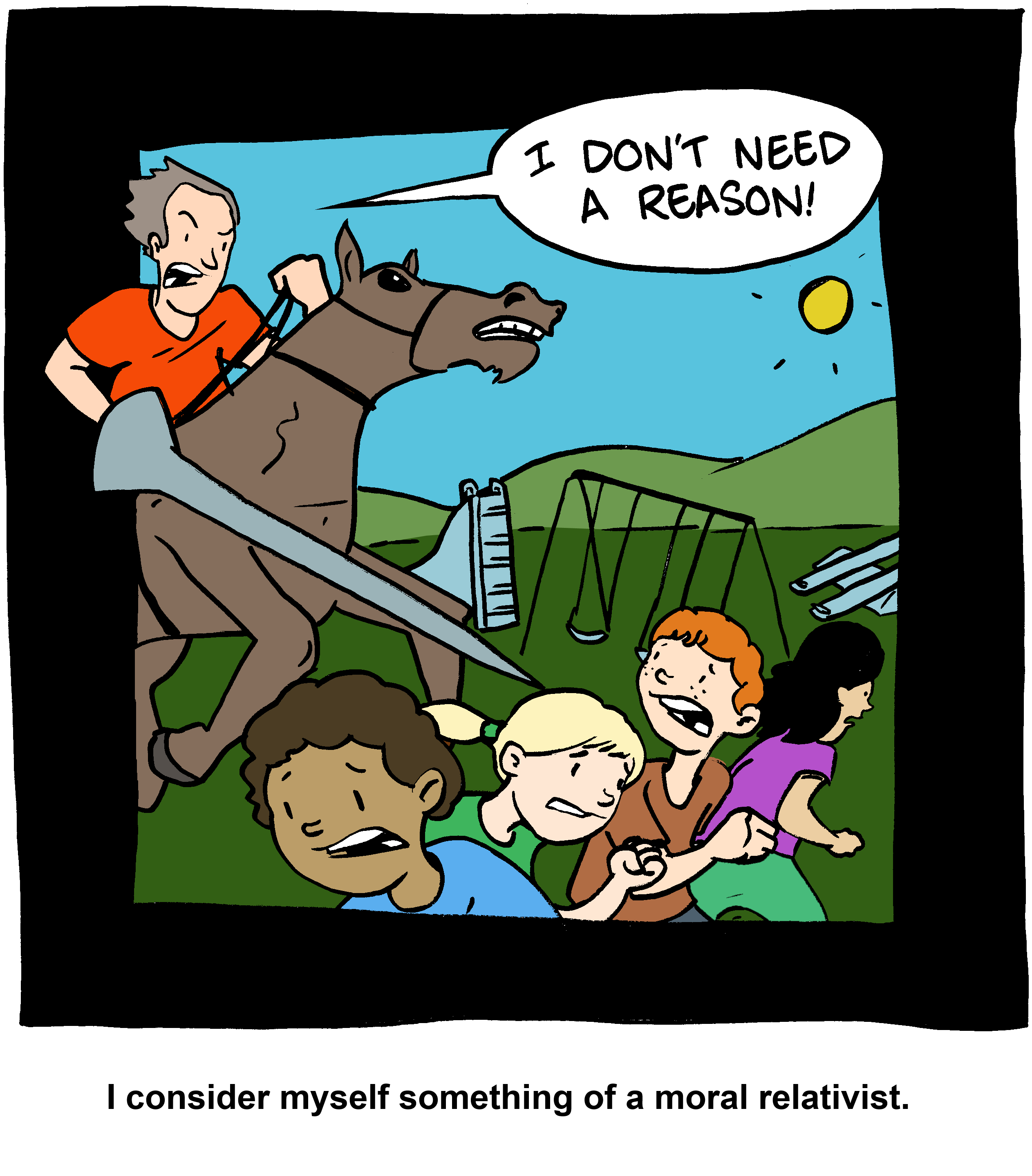 Webcomic from Saturday Morning Breakfast Cereal by Zach Weinersmith. The high-res version sent to me did not contain the caption. Mr. Weinersmith explained in the email that this was because when people reprint the comic, they add the captions on their end. I have re-added the caption, getting it as close to the original in size and placement as is possible.